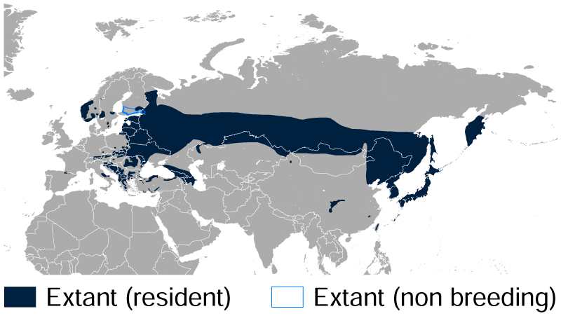 Geographical distribution of the White-backed Woodpecker Dendrocopos leucotos. The map was created using the Generic Mapping Tools, GMT, version 5.1.2.